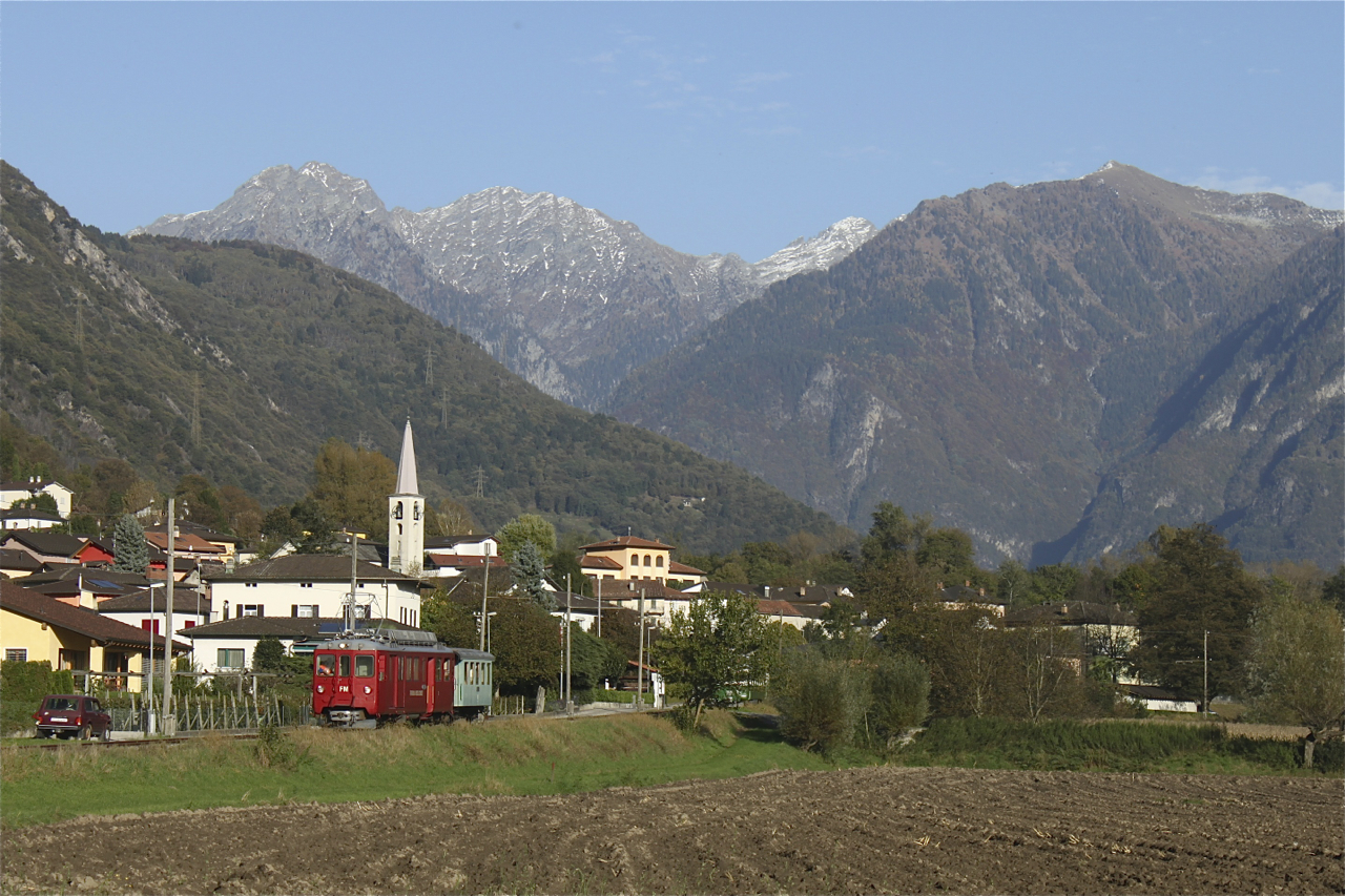 SEFT BDe 4/4 6 at Lumino.